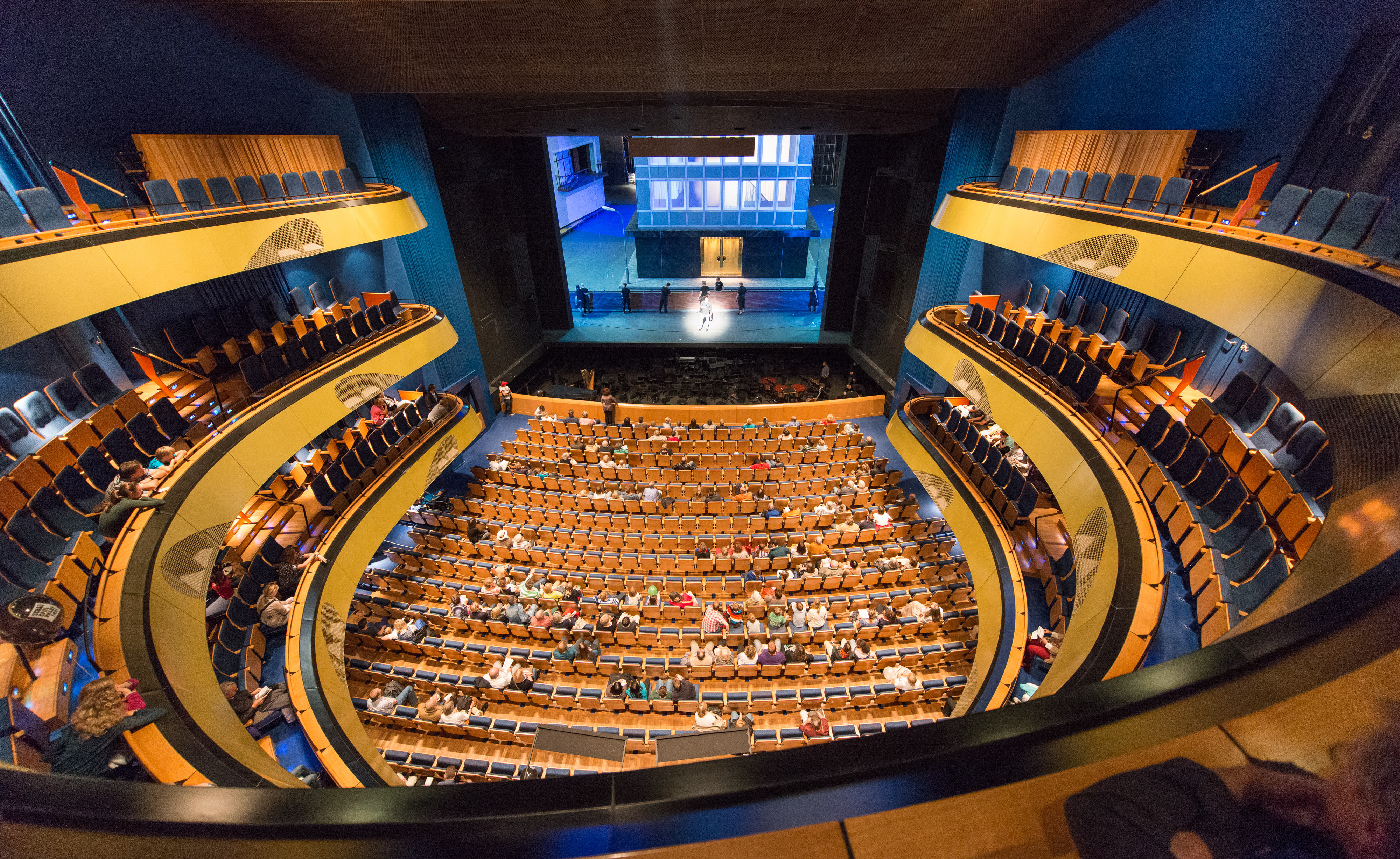 Frankfurt am Main, Frankfurt Opera. View from the highest gallery of the auditorium towards the stage.